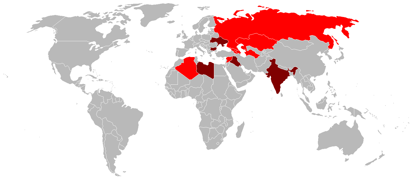 World map of Mikoyan-Gurevich MiG-25 operators